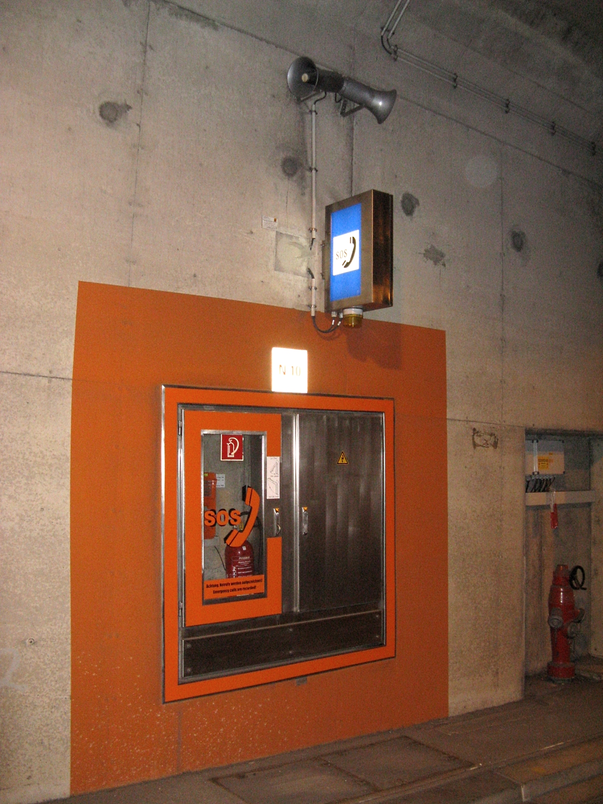 Warnow tunnel in Rostock, Germany, SOS-phone and tools for fire fighting